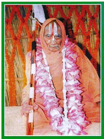 Tridandi Swami Vishwaksenacharya Jeeyar of Buxar, Bihar